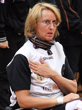 Cropped from File:Germany women's national wheelchair basketball team 6880 11.JPG